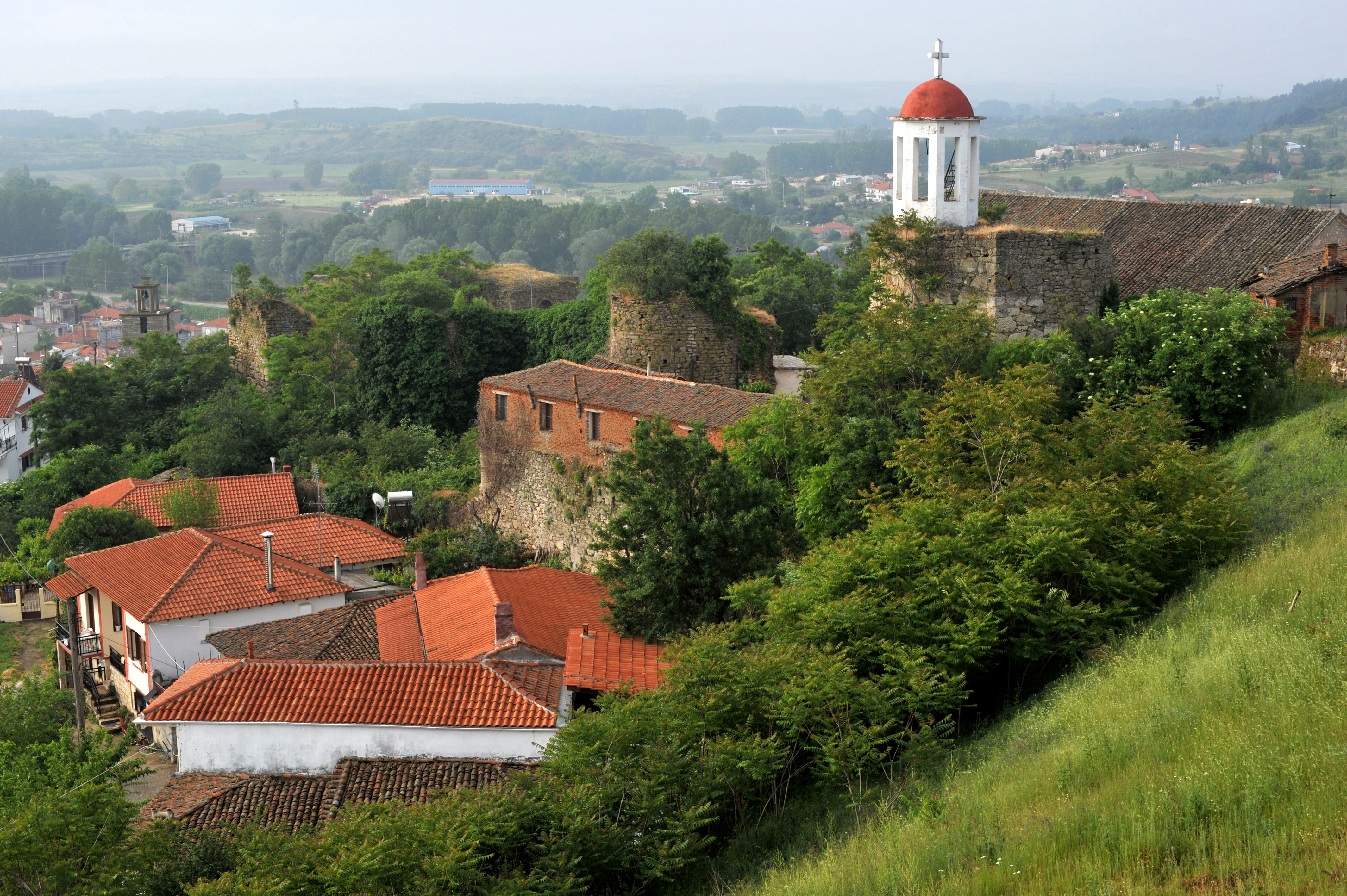 Castles and orthodox church of Sotiros Christos - Didymoteicho, West Thrace, Greece.